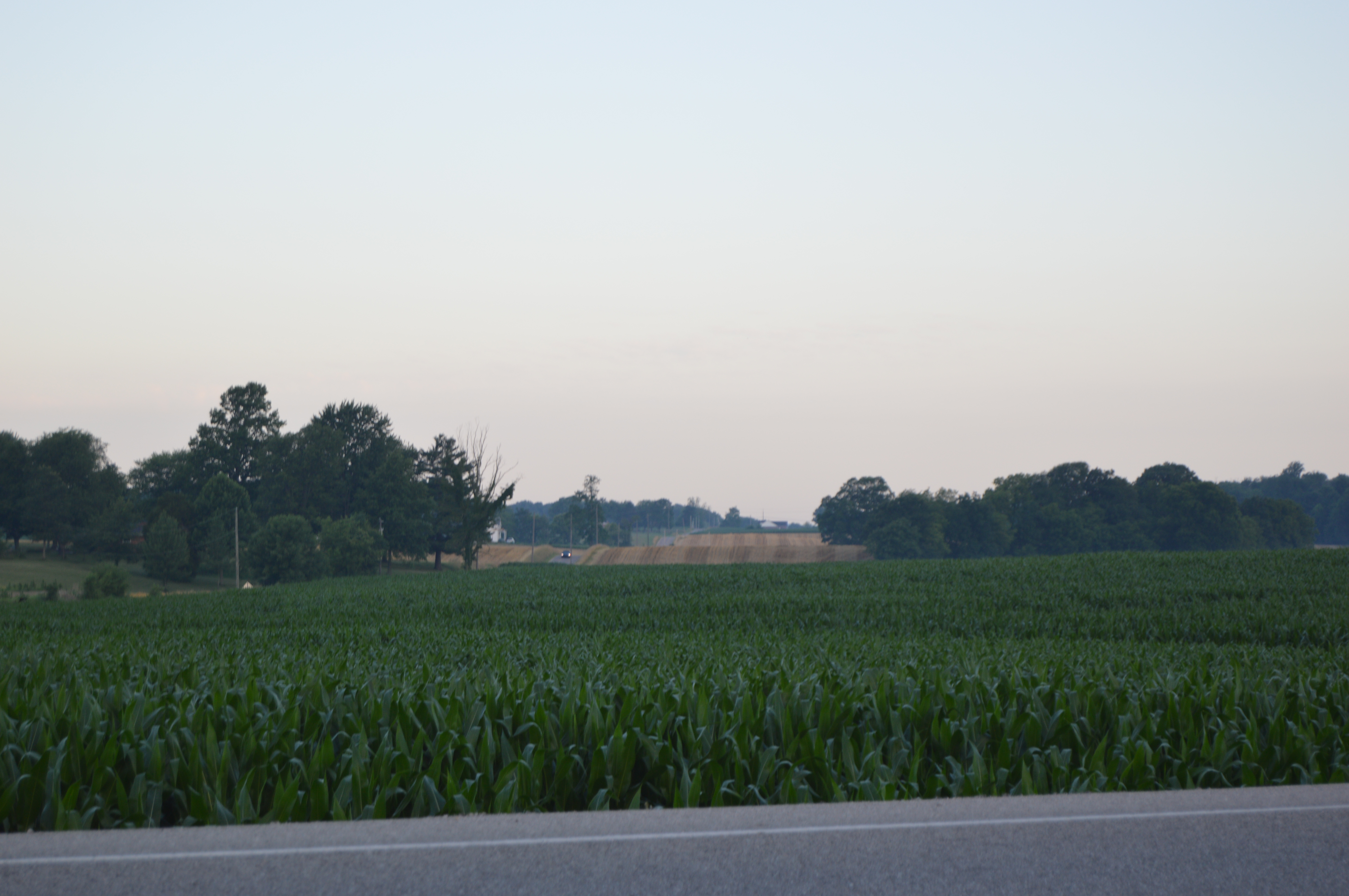 Fields on the southwestern side of State Road 66 in central Robinson Township, Posey County, Indiana, United States.